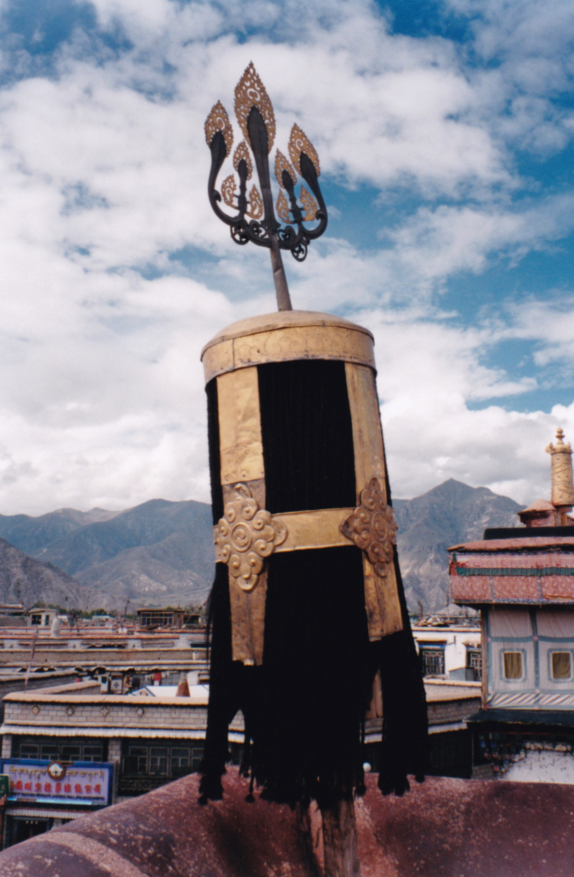 Dhvaja, on the roof of the Jokhang Temple. Lhasa, Tibet These Tibetan Victory Banners are derived from military standards of the region. They symbolize the triumph of Buddhism over its political and religious enemies. They are made of gilt copper, wood, or cloth. As apotropaic objects that protect against evil, they are usually found on the rooftop corners of Tibetan temples and palaces.